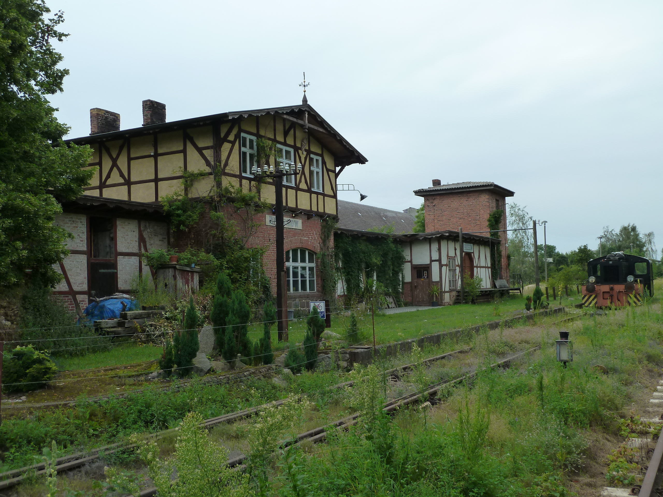 Former Brüssow train station